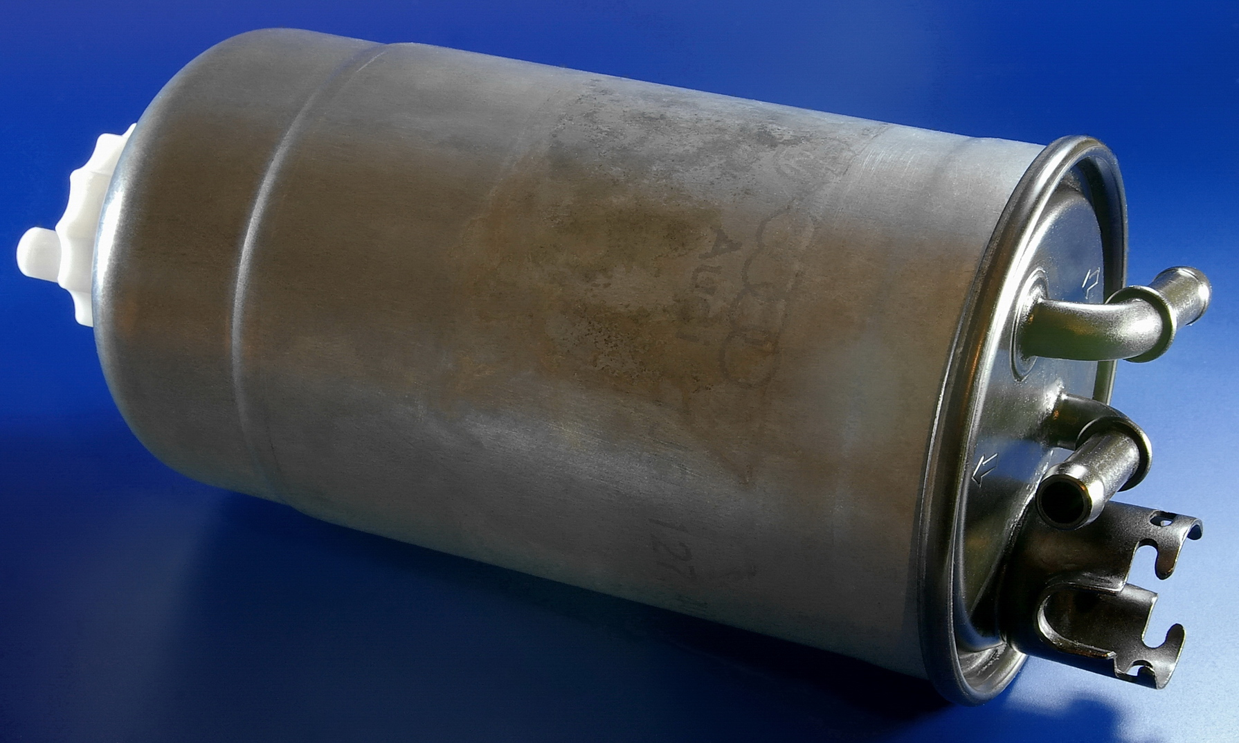 used diesel fuel filter commonly used for TDI-dieselengines in volkswagen vehicles